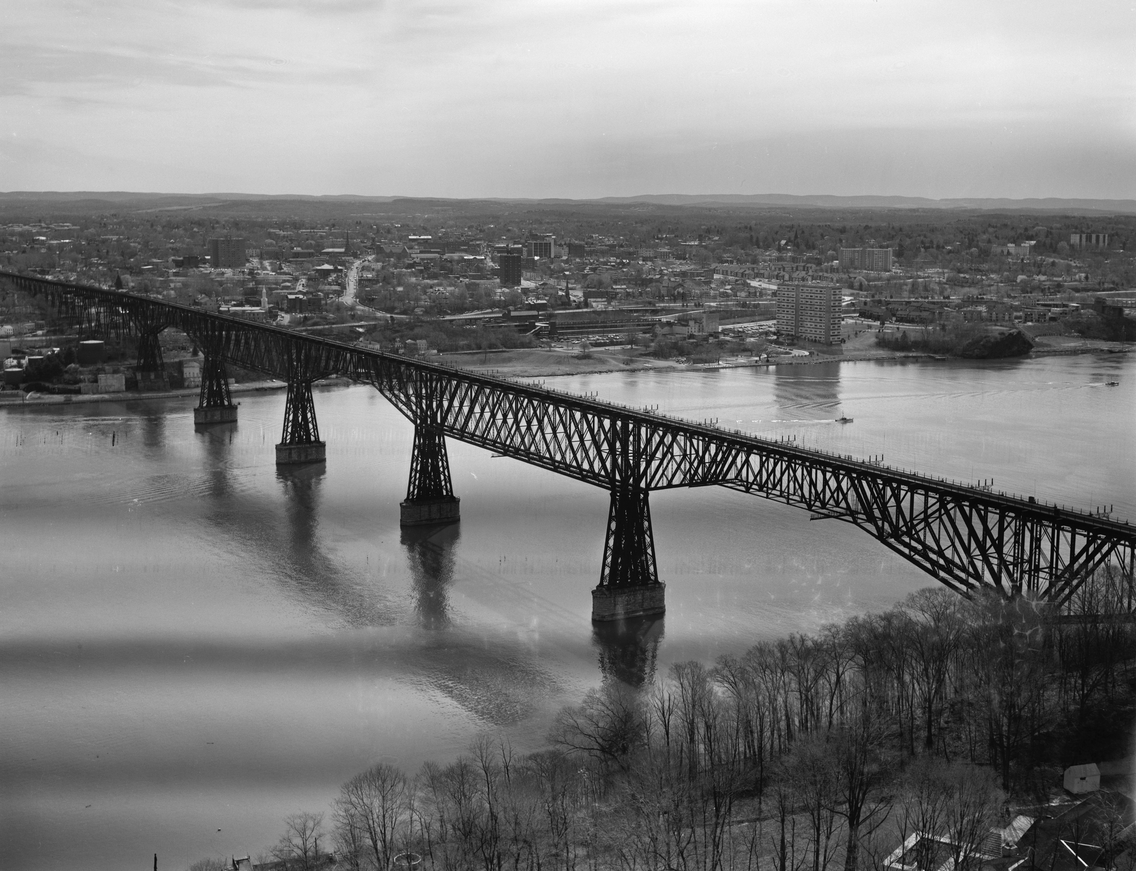 Looking southeast from Highland in Ulster County, NY, at the Poughkeepsie Bridge, spanning the Hudson River, towards Poughkeepsie, in Dutchess County, NY. See also Category:Walkway Over the Hudson.